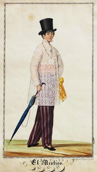 "El Mestiso" Tipos del País (19th Century Watercolor) by Justiniano Asuncion